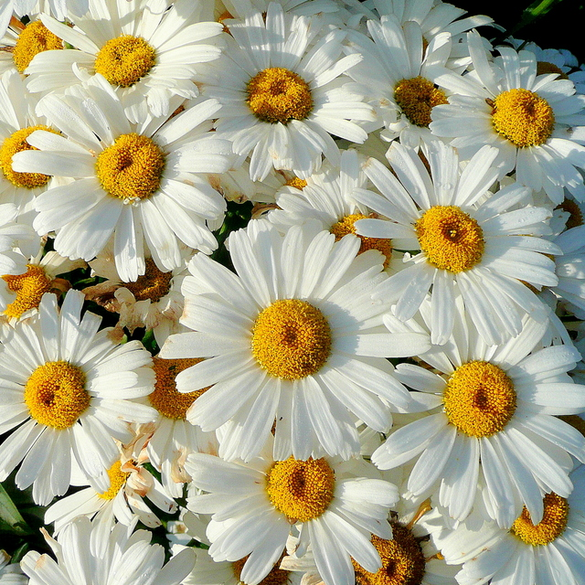 Shasta Daisy, Leucanthemum x superbum Early morning sunshine is catching drops of dew.